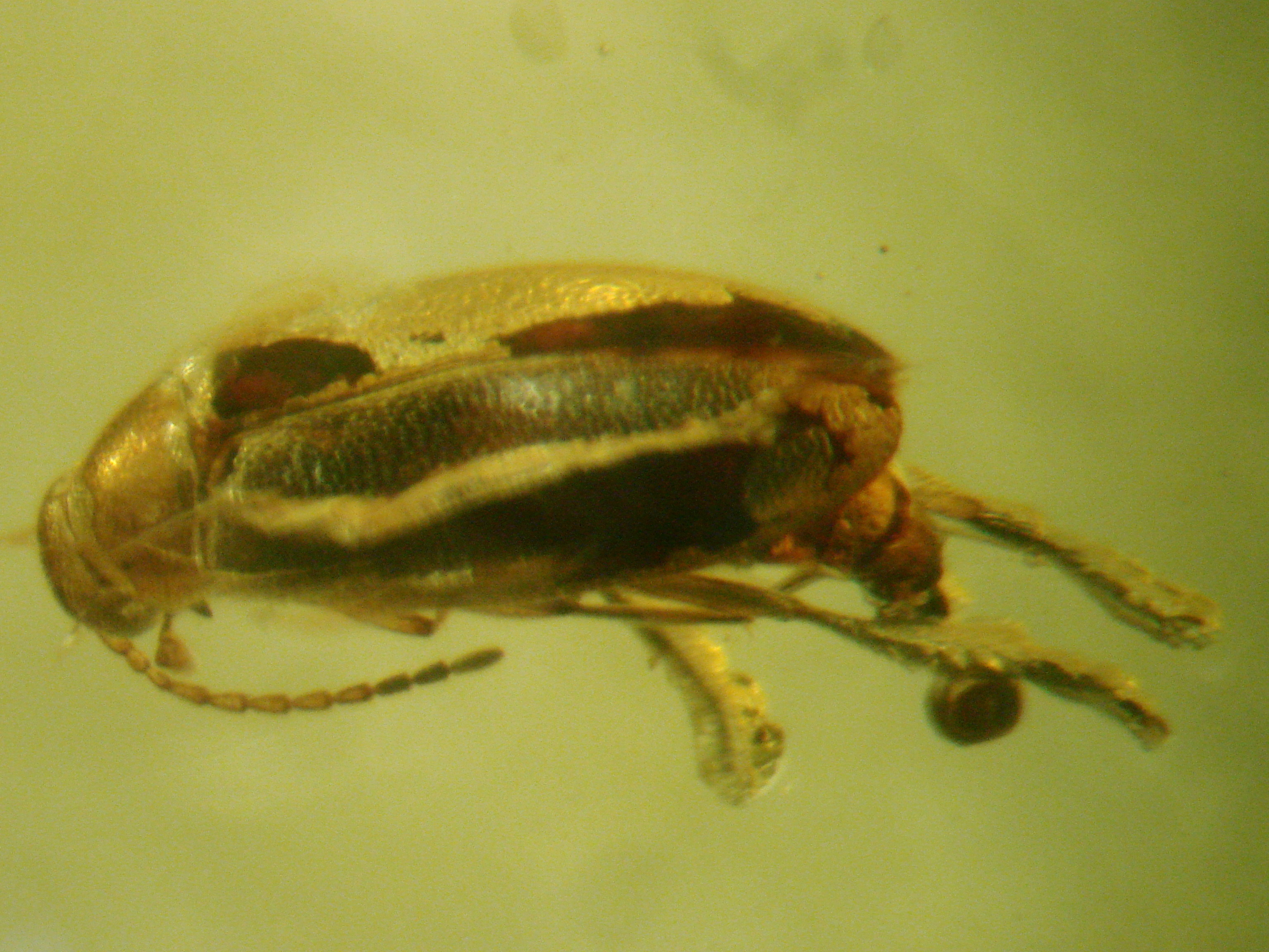 Baltic amber inclusions - 50 million years old - Coleoptera, Scraptiidae, ...? Picture "Baltic amber Coleoptera Scraptiidae 4" show the other side Picture "Baltic amber Coleoptera Scraptiidae 5" show a close-up on head